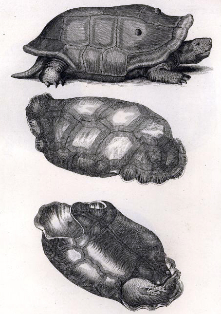 Engraving from Johann David Schoepf's Historia Testudinum iconibus illustrata. At the top it shows the Réunion Giant Tortoise (Cylindraspis indica). In the middel and the bottom it shows the carapace of the Saddle-backed Rodrigues Giant Tortoise (Cylindraspis vosmaeri).